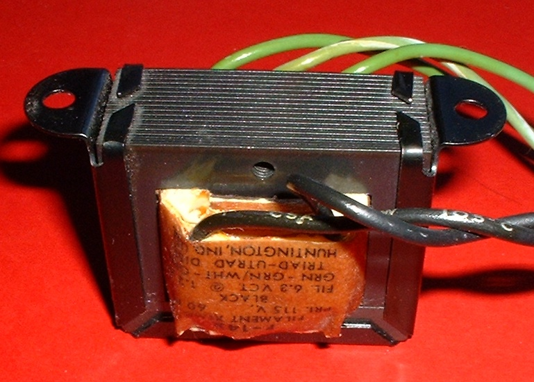 Transformer, 115 VAC to 6.3 VAC with laminated core. Typically used to power vacuum tube filaments. Mounting holes are 6 cm apart.I took this picture.--agr 14:45, 9 Nov 2004 (UTC)